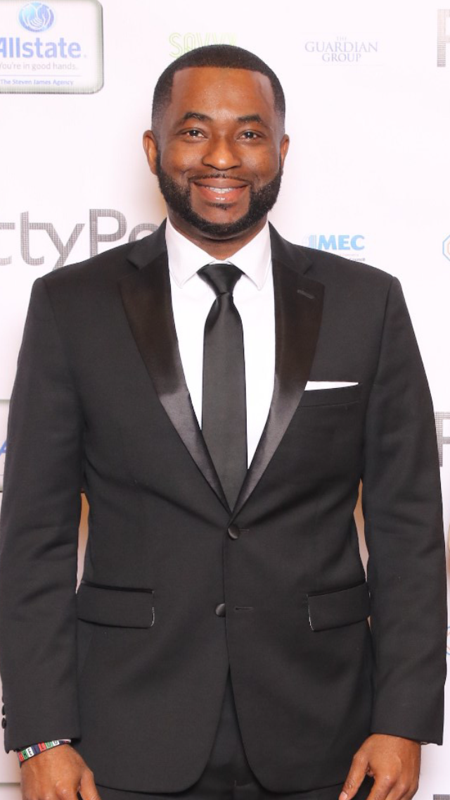 Dr. Olurotimi John Badero at the 2017 Young Gifted and Empowered Awards